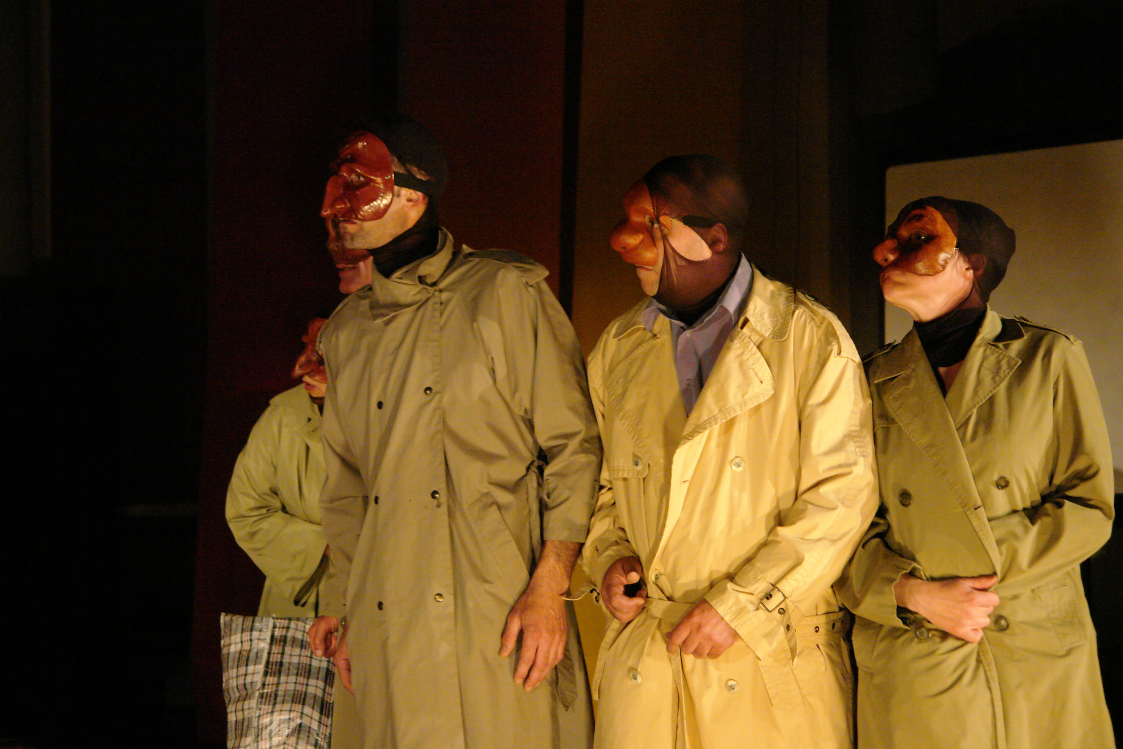 Play "Voices from Chernobyl: The Oral History of a Nuclear Disaster" from Svetlana Alexievitch, Geneva, April 25, 2009.